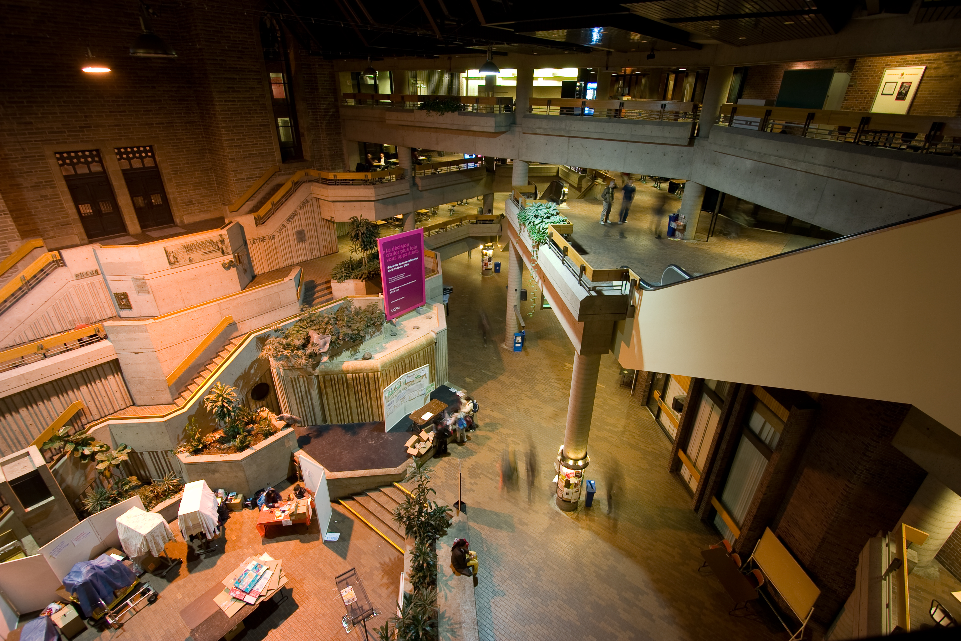 Interior of the Juith Jasmin Hall, Université du Québec à Montréal